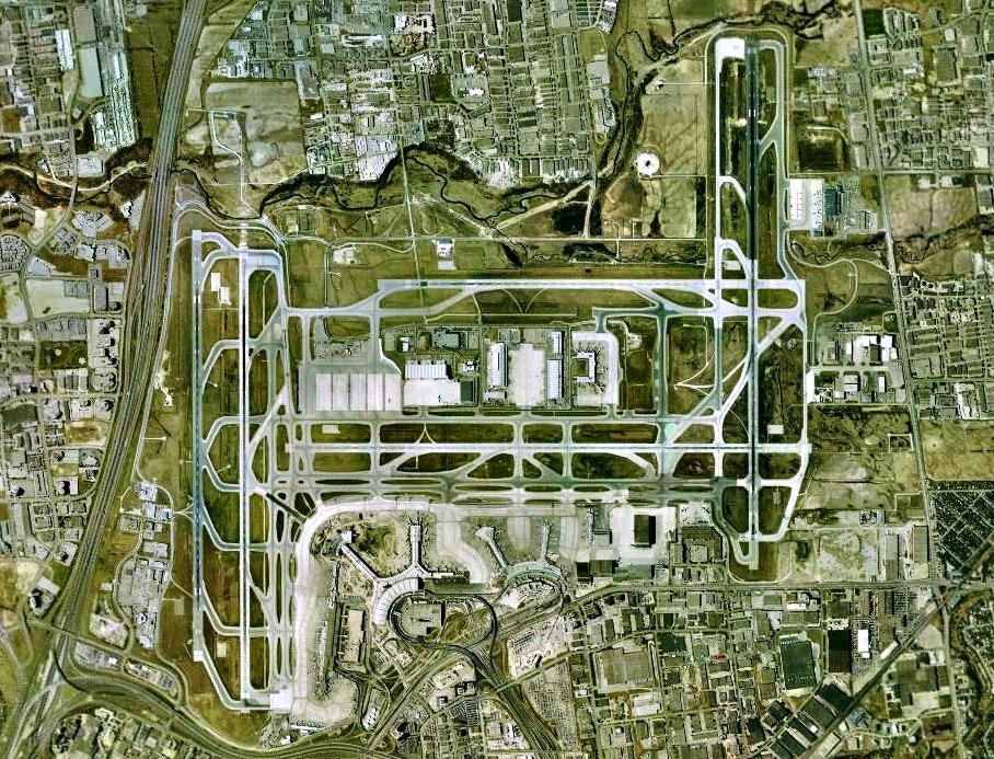 Toronto Pearson International Airport. The southwest side of the airport ("west" on the street grid of Mississauga, Ontario) is at the top of the image. Highway 401 is to the left, with highway 427 branching off at bottom left.